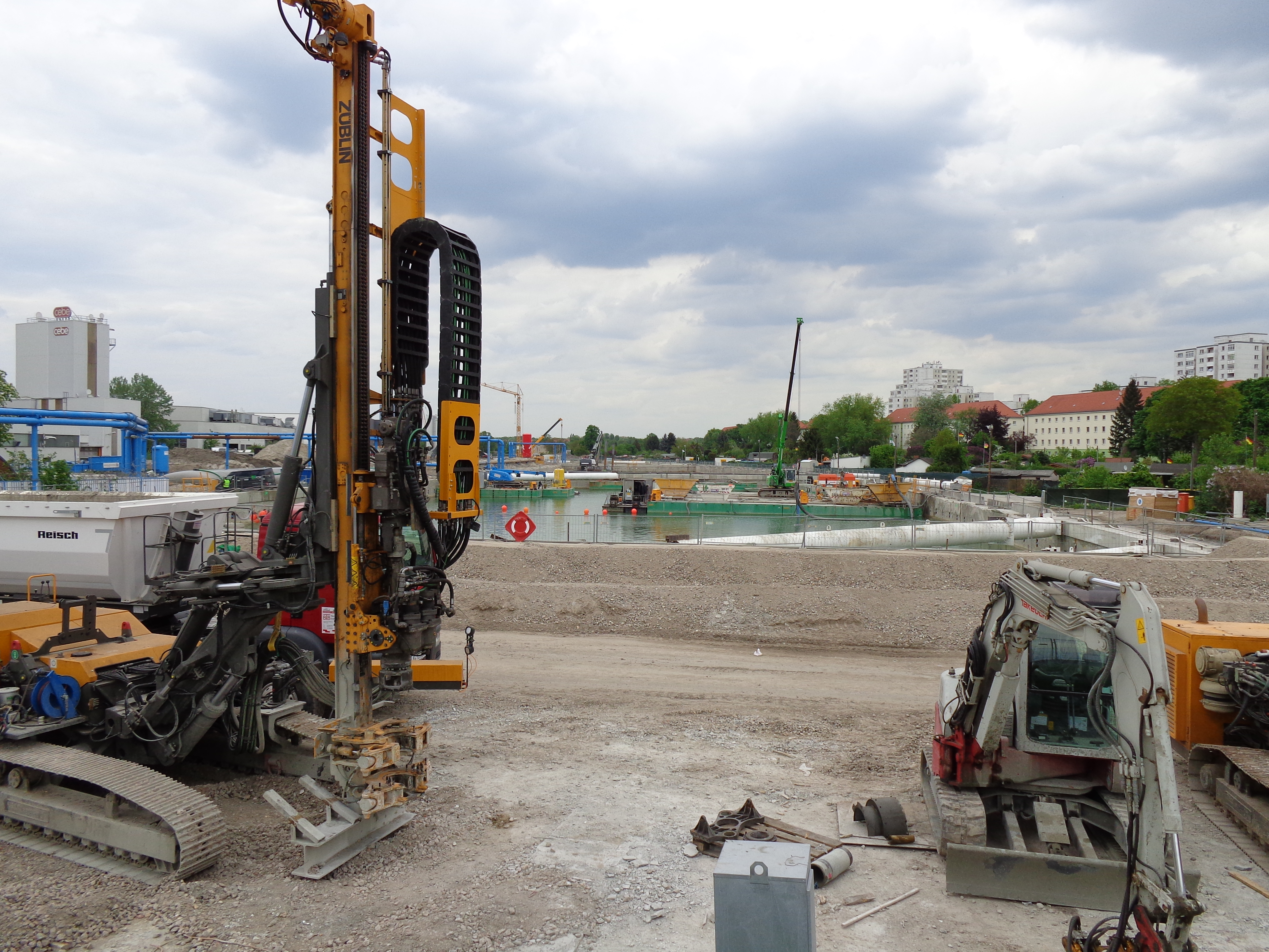 construction works for Berlin Stadtautobahn A100 at Sonnenallee, looking North